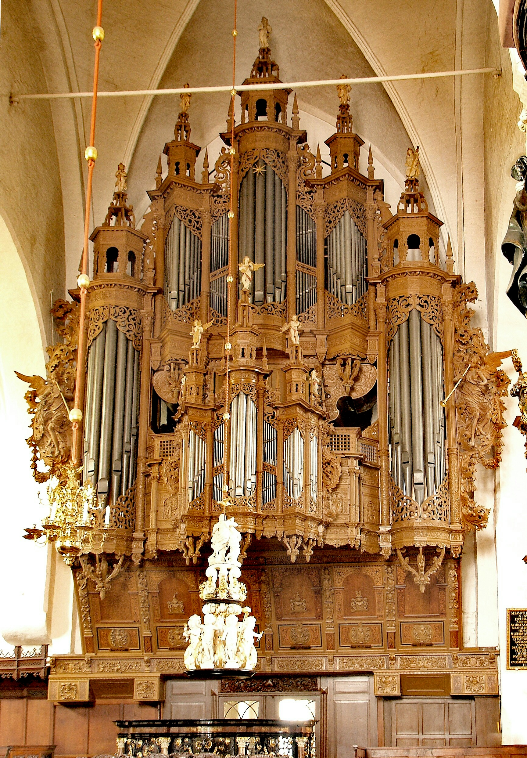 St. Aegidien at Luebeck, Germany, the organ